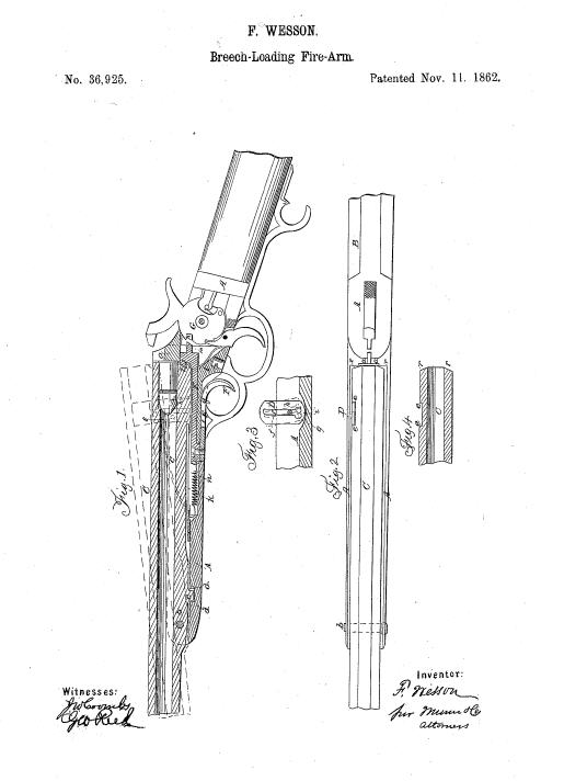 Patent 36,925 (36925) drawings of breech opening mechanism, and slotted link for controlling opening of rifle. Model shown is Frank Wesson two trigger (commonly called tip-up) model.